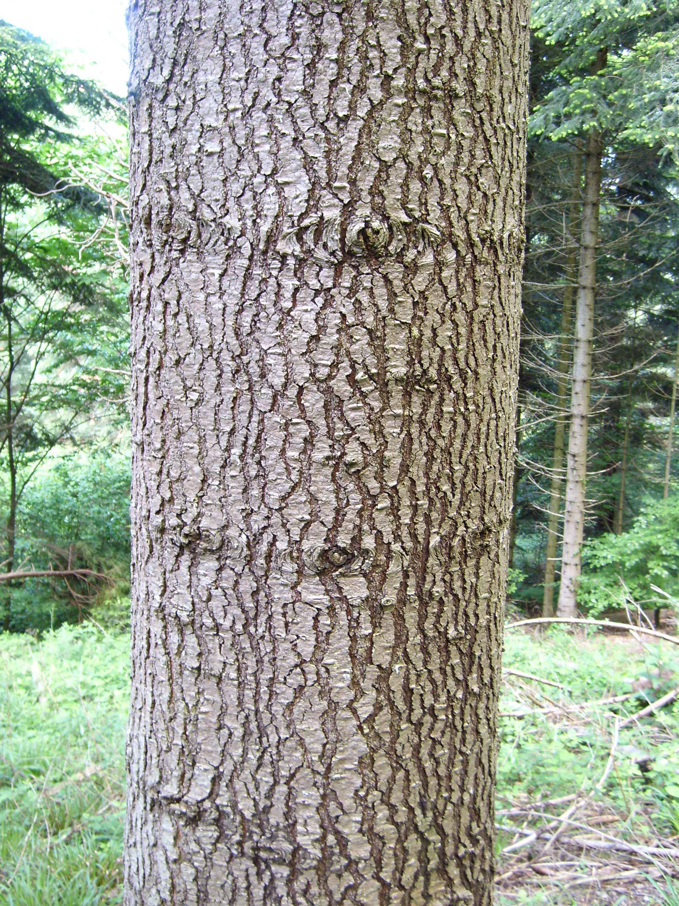 Bark of Abies concolor var. lowiana